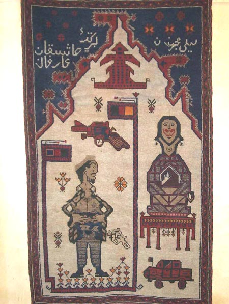 Authors photograph.